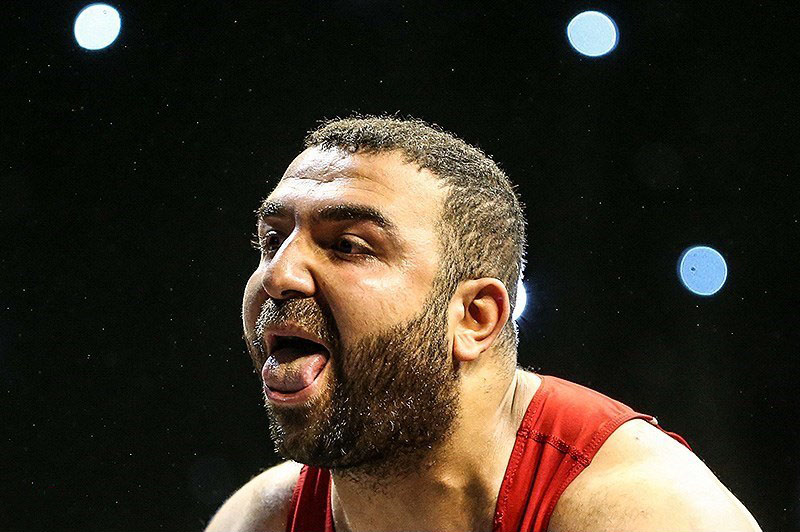 Sargis Martirosyan, Austrian weightlifter.